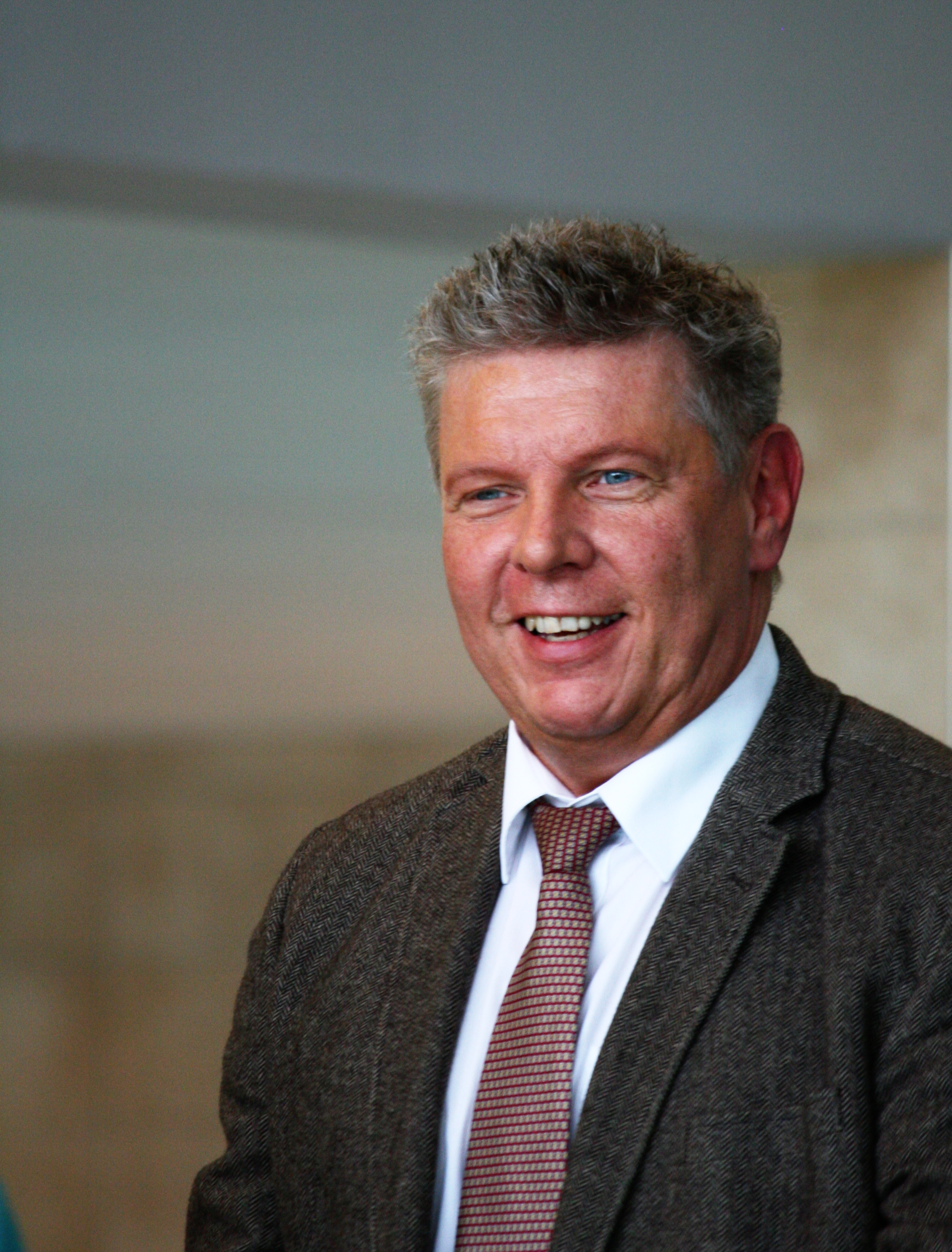 Dieter Reiter, major (SPD) of Munich, Germany since 2014.